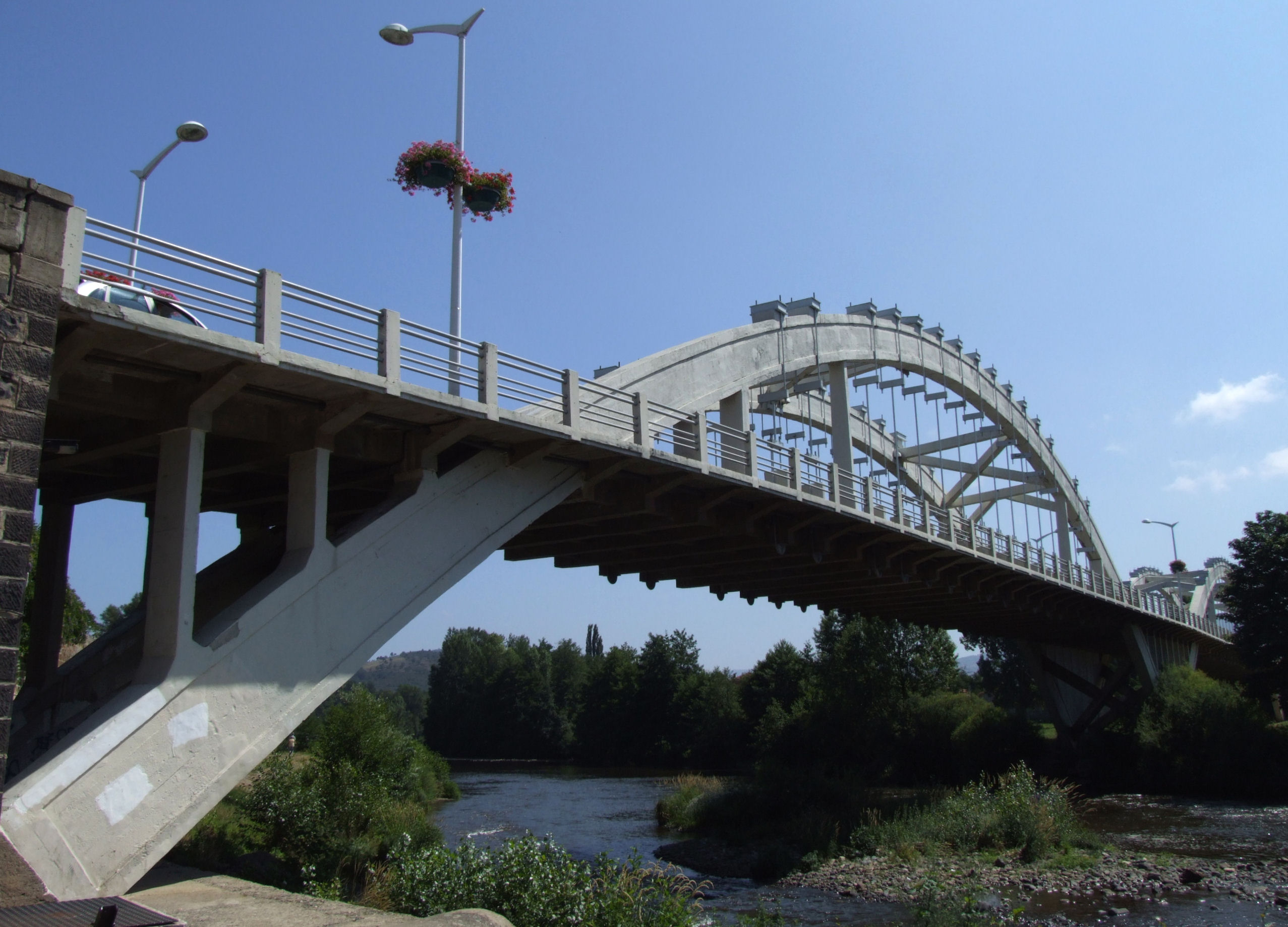 Langeac - Bridge